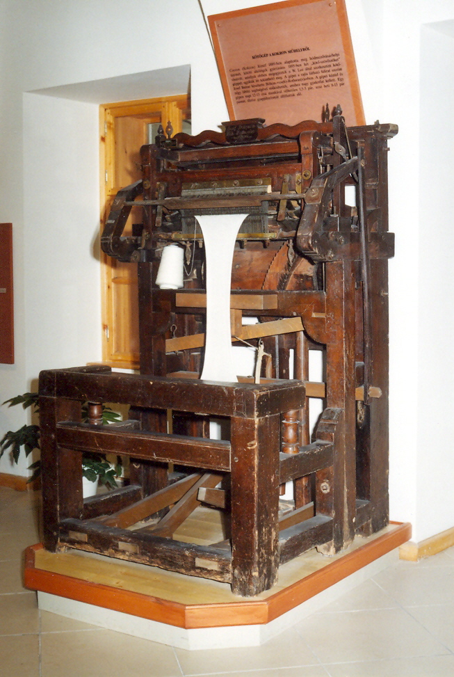 Knitting machine from the 19th century in the Óbuda Museum in Budapest/Hungary. It worked originally in the Hungarian knitting factory "Kokron".